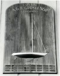 The A.G.B. Grosvenor Trophy is awarded annually to the volunteer member of the Naval Academy Sailing Squadron who has made exemplary contributions to the mission and programs of the sailing squadron. It was established in 1978 to honor the late Capt Grosvenor, USNA Class of 1950, Commanding Officer, Naval Station Annapolis, and Commodore, Naval Academy Sailing Squadron.